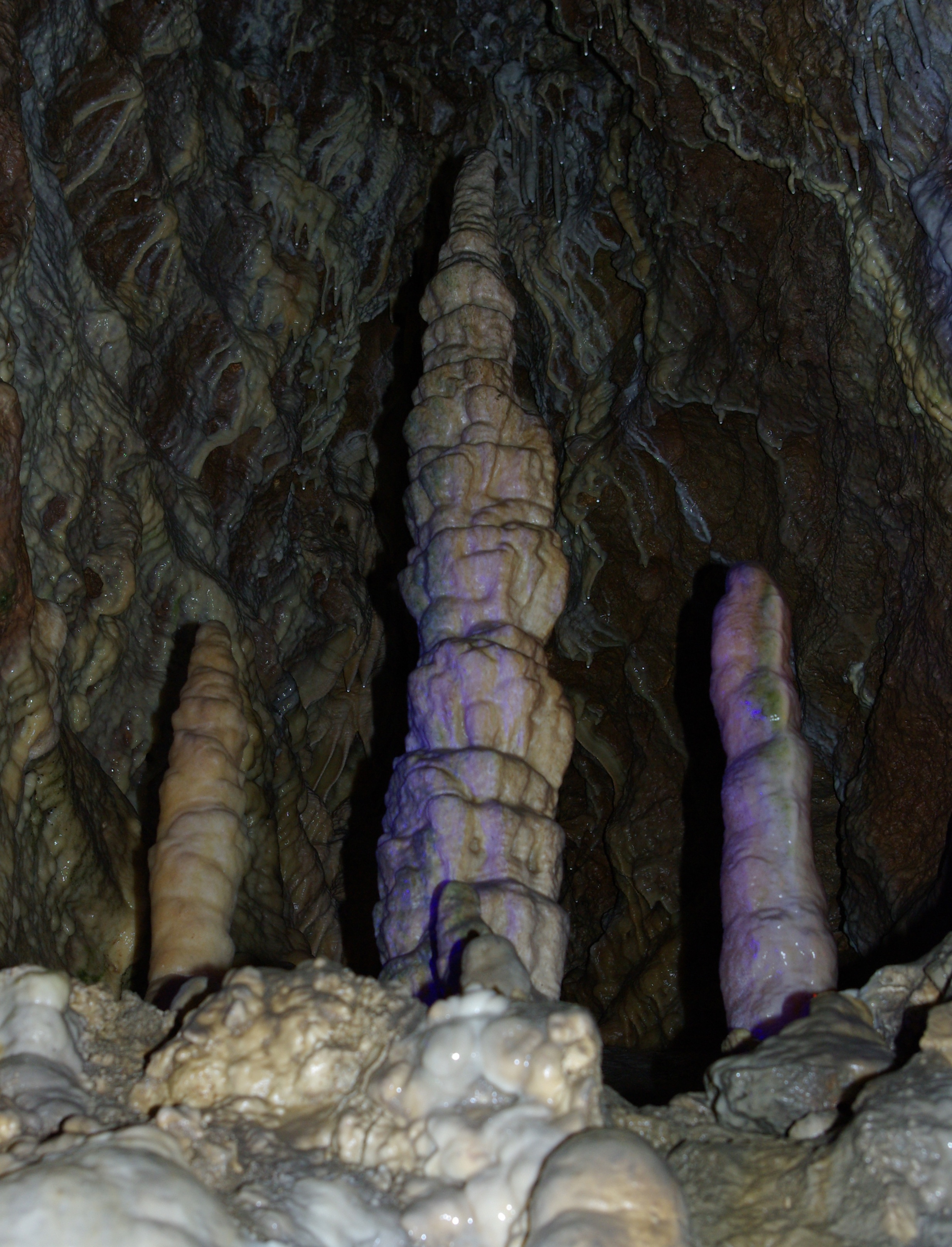 Devil's Cave (near Pottenstein)